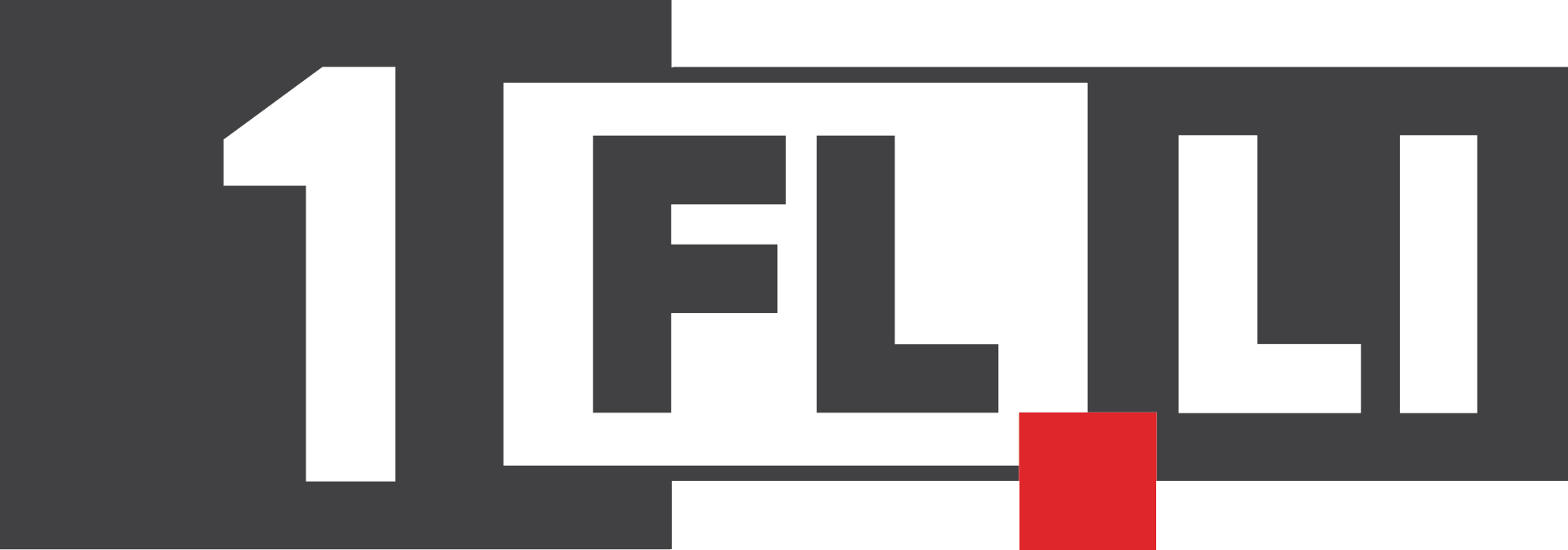 Logo of 1FLTV